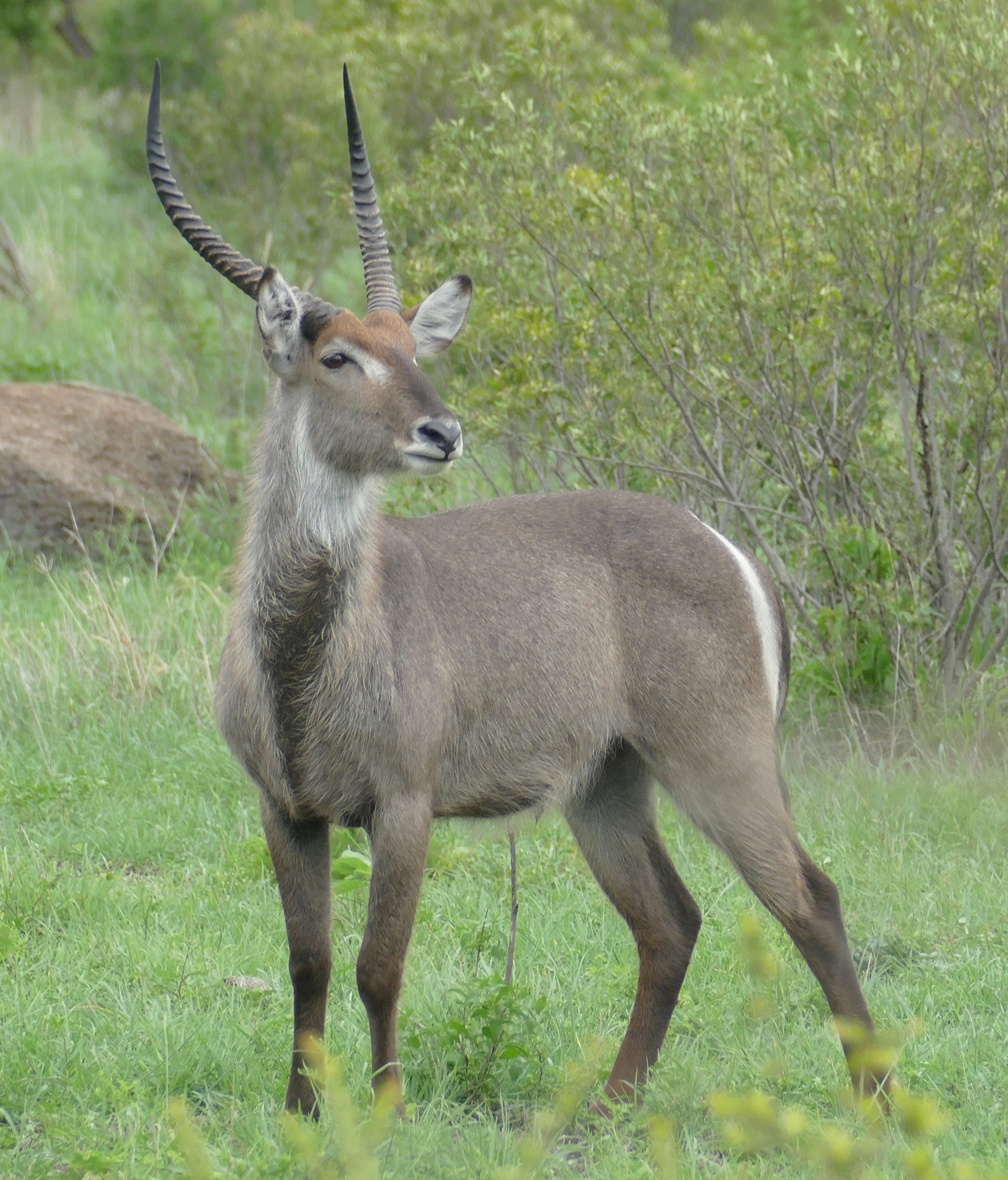 S1 Road East of Phabeni Gate, Kruger NP, Mpumalanga, SOUTH AFRICA